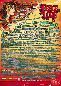 Official poster for Peace & Love 2010